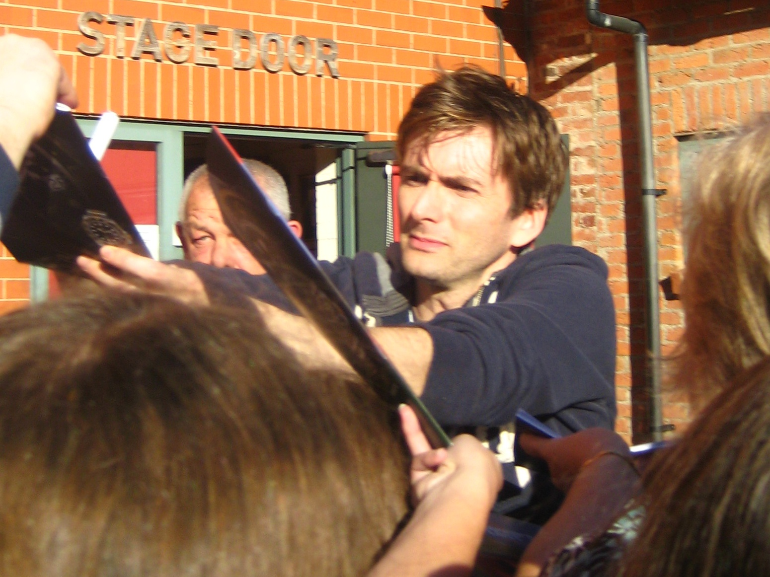 David Tennant signing autographs at the stage door in Stratford-upon-Avon.